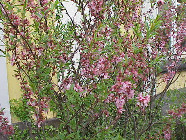 Species: Prunus tenella Family: Rosaceae Image No. 2